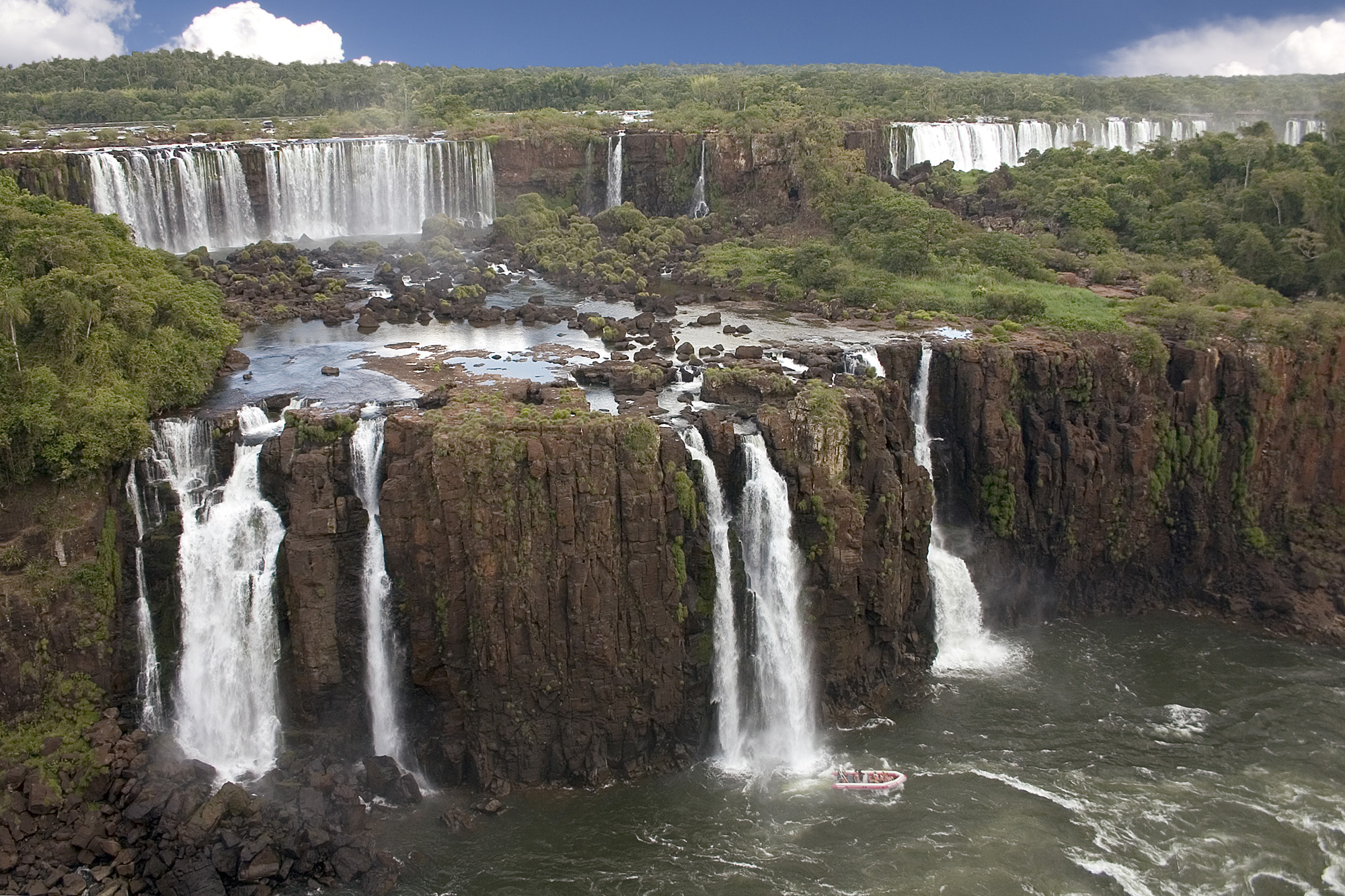 Iguazu Falls, Argentina.